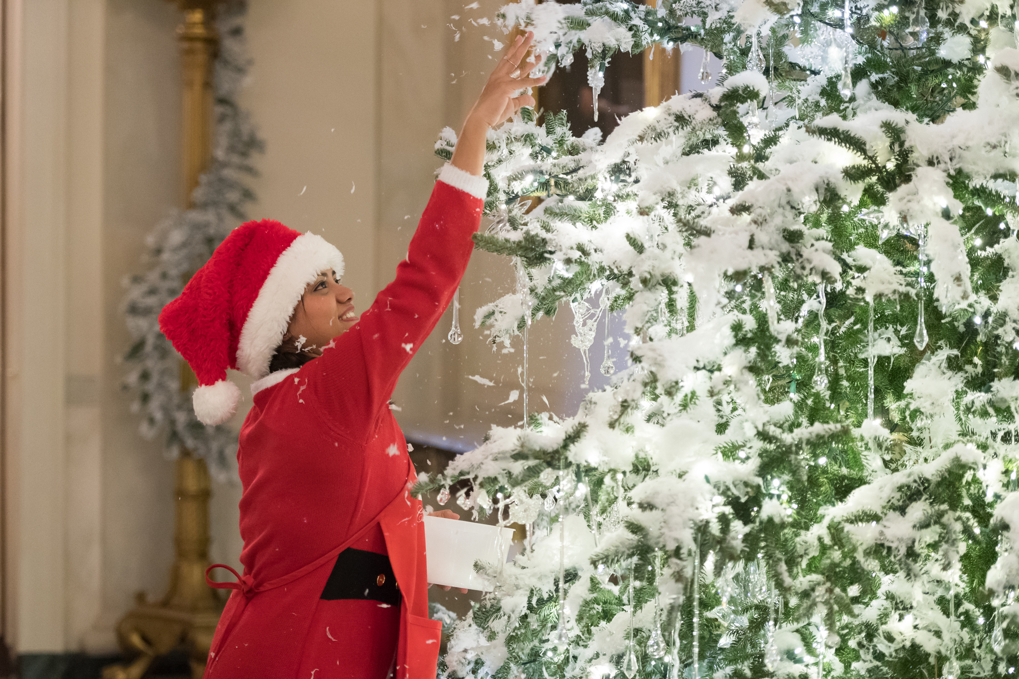 A White House decoration volunteer throws fake snow onto a Christmas tree on the State Floor of the White House, November 26, 2017, in Washington, D.C. (Official White House Photo by Andrea Hanks)